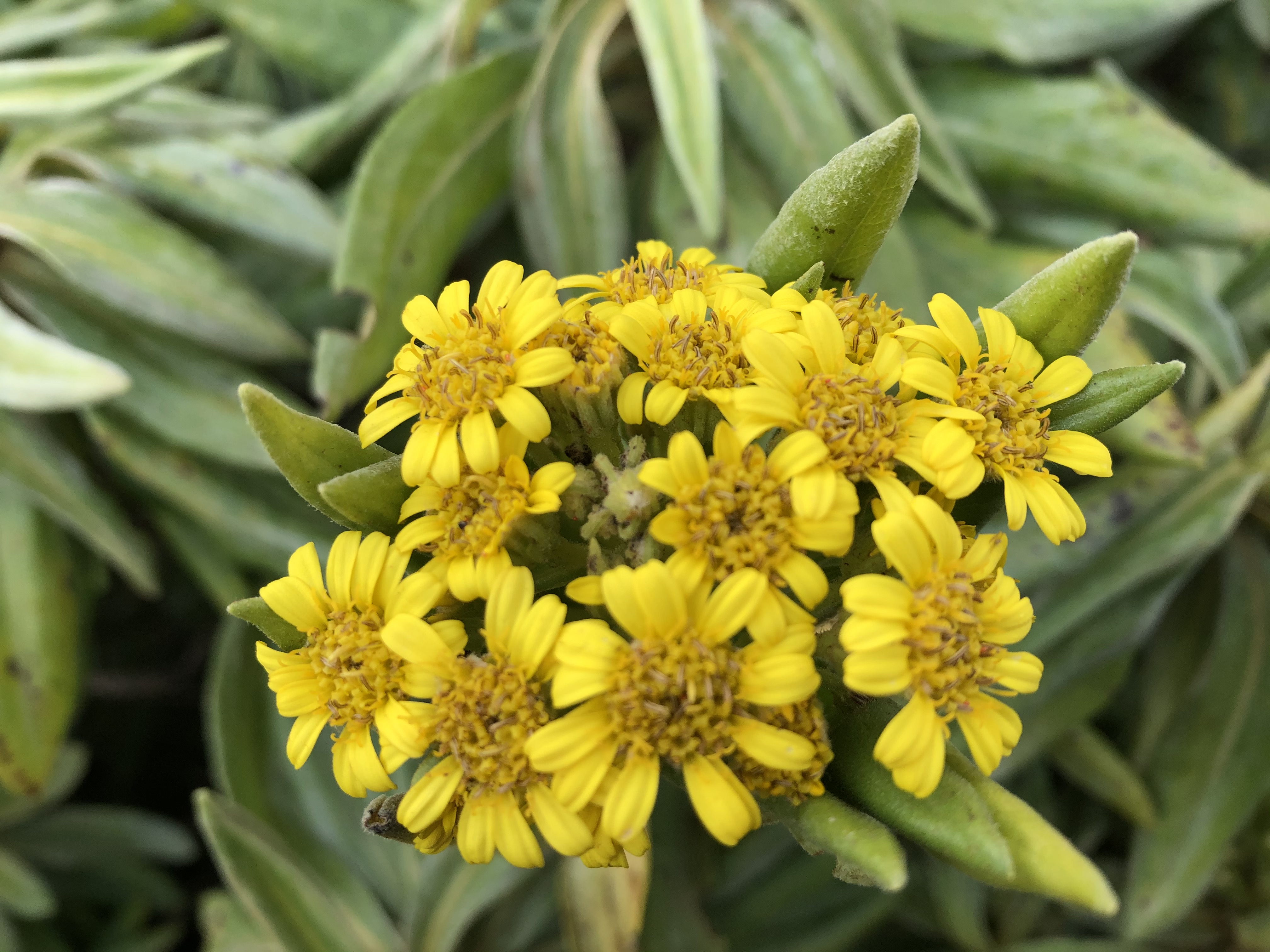 Brachyglottis huntii, commonly called rautini or Chatham Island Christmas tree in the Nikau Conservation Area